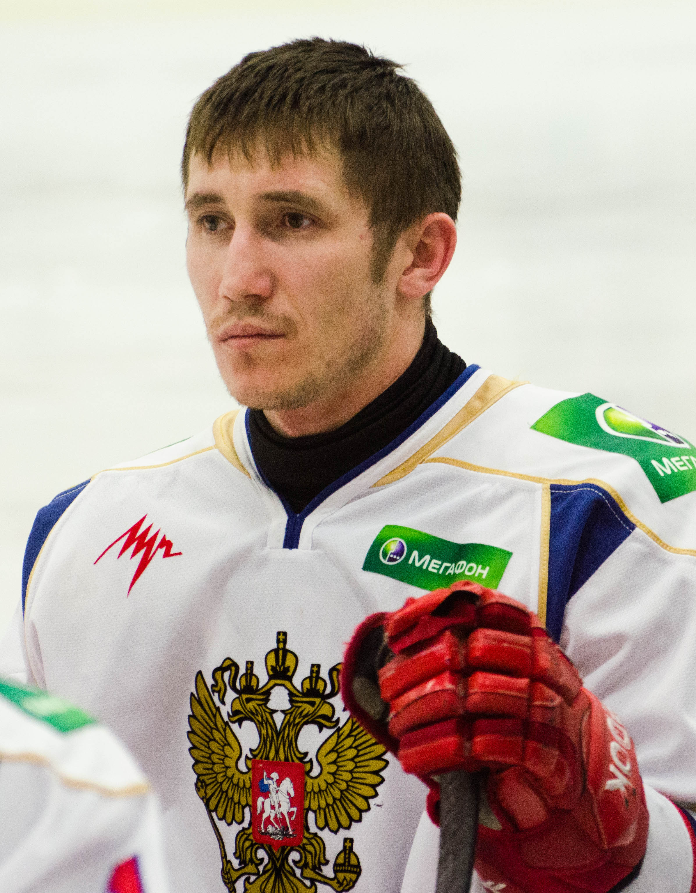 Alexei Amosov in 2015